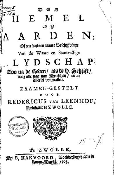 Frontispiece of Den hemel op aarden (Heaven on Earth), the highly controversial 1703 book of Dutch radical Enlightenment philosopher Frederik van Leenhof.